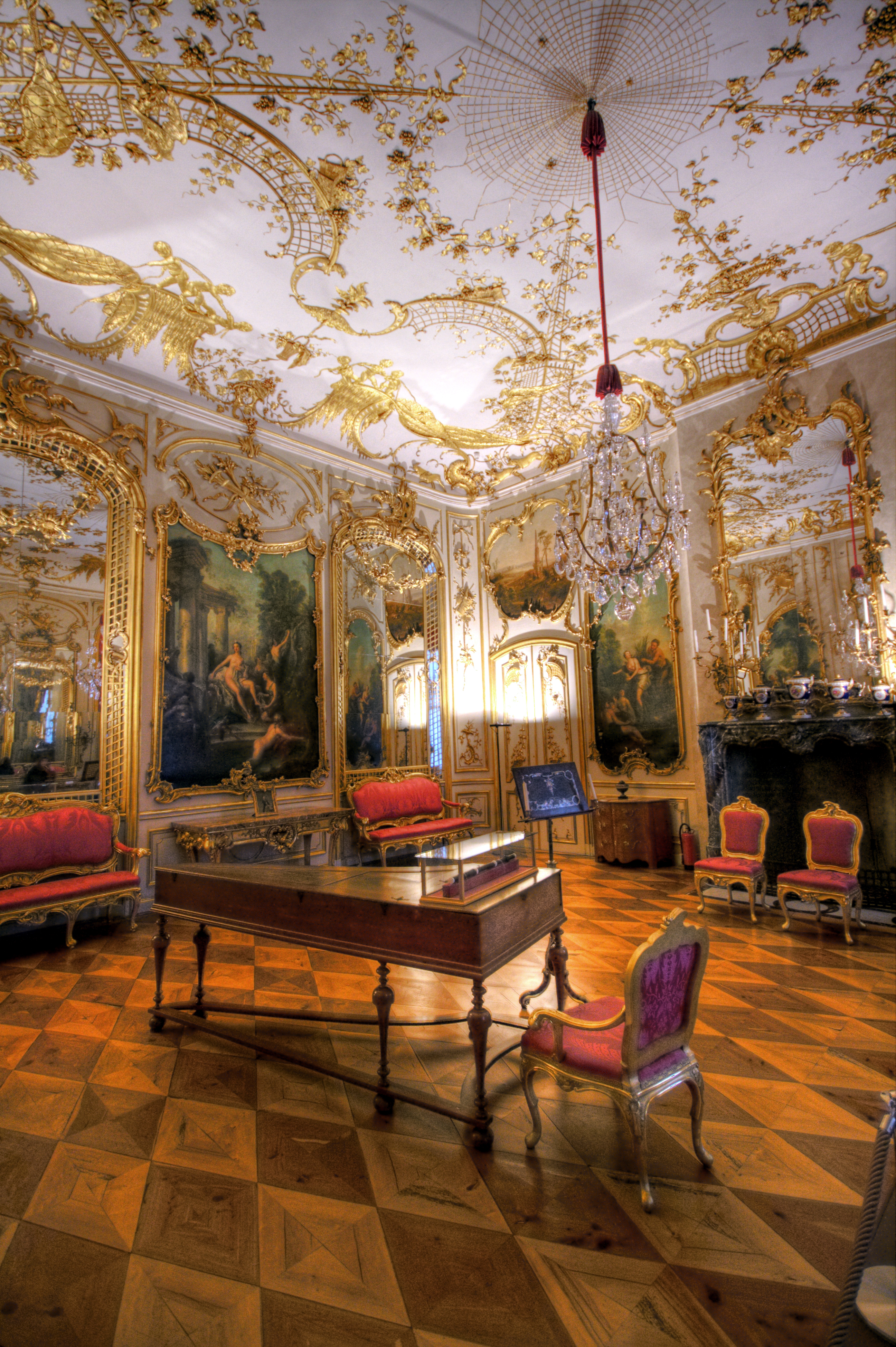 Photography of the rehearsing room of Sans-Souci in Potsdam